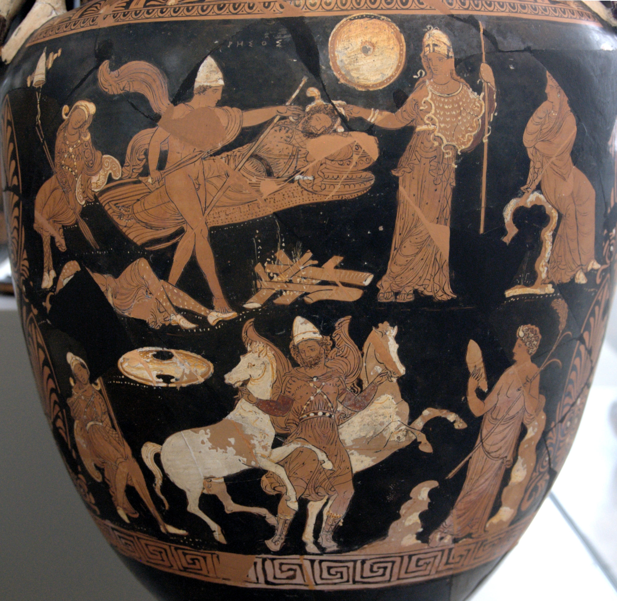 “Rhesos krater”, Apulian red-figure krater.